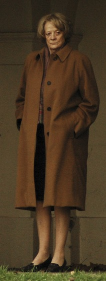 Dame Maggie Smith in Kensington Gardens filming 'Capturing Mary', 7 March 2007. Shot with a long lens from the nearby path in a break between filming. The weather was cold and she appeared to be taking shelter.